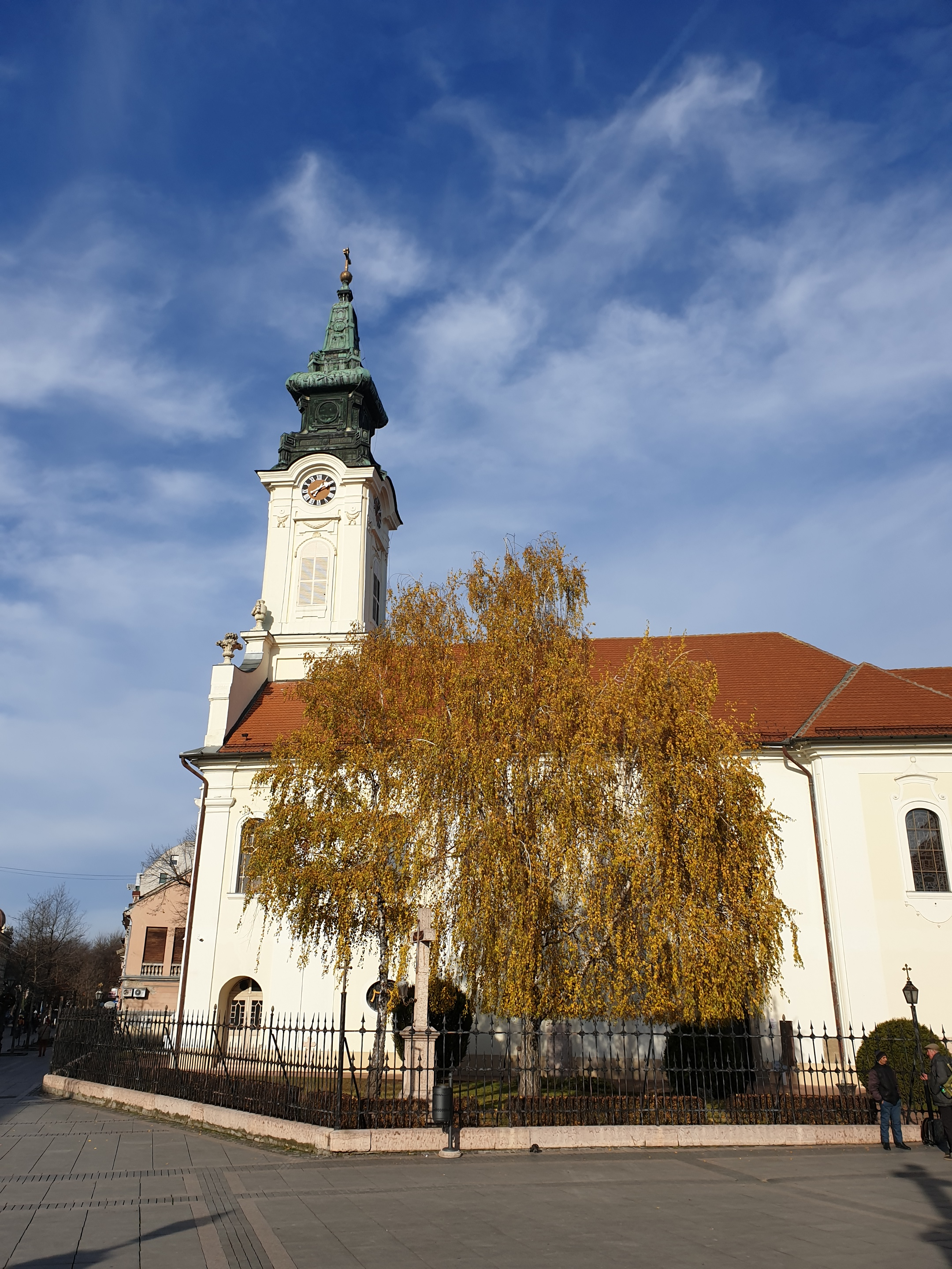 Svetođurđevska crkva